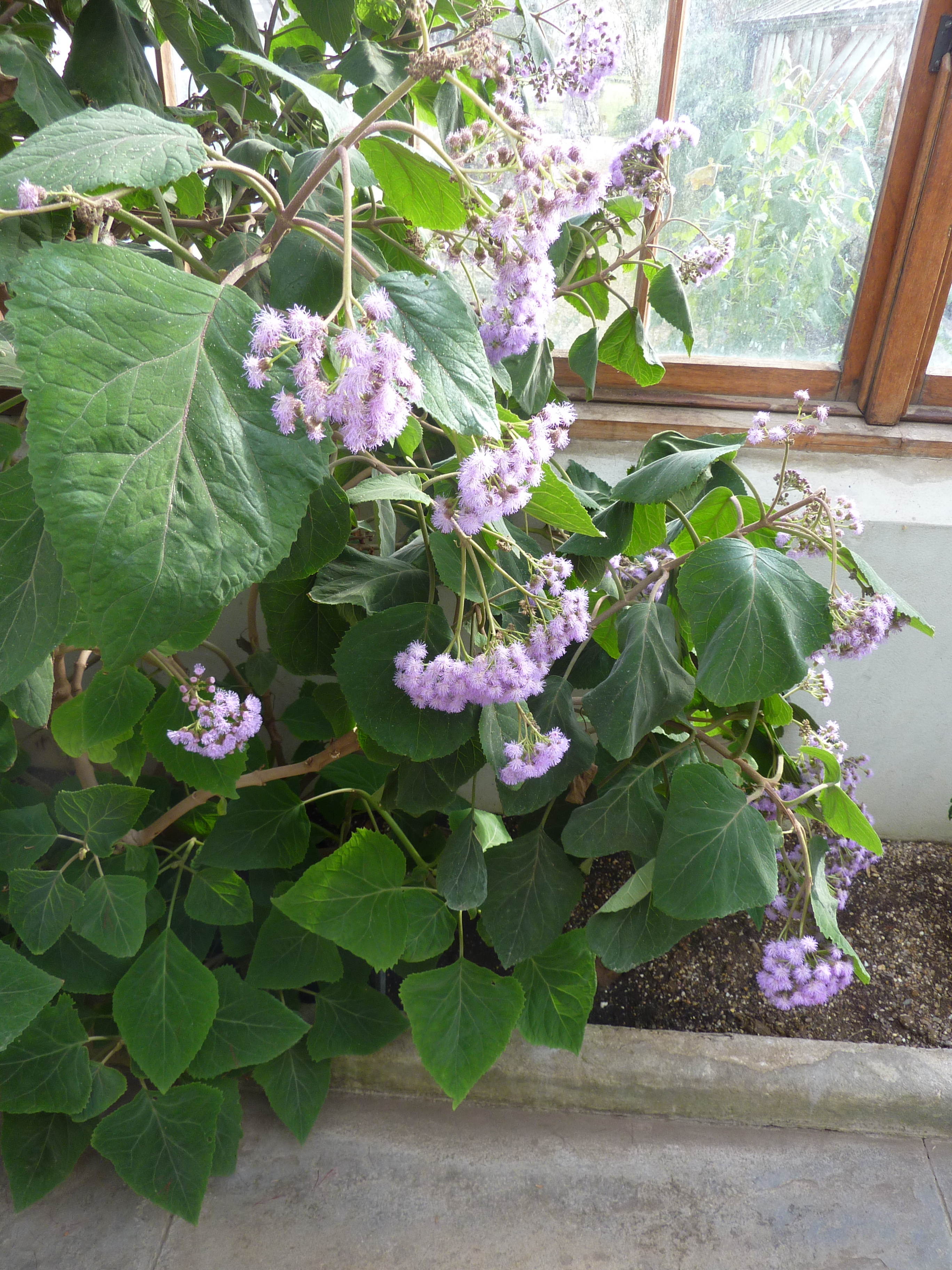 Taken in the Cambridge University Botanic Garden.